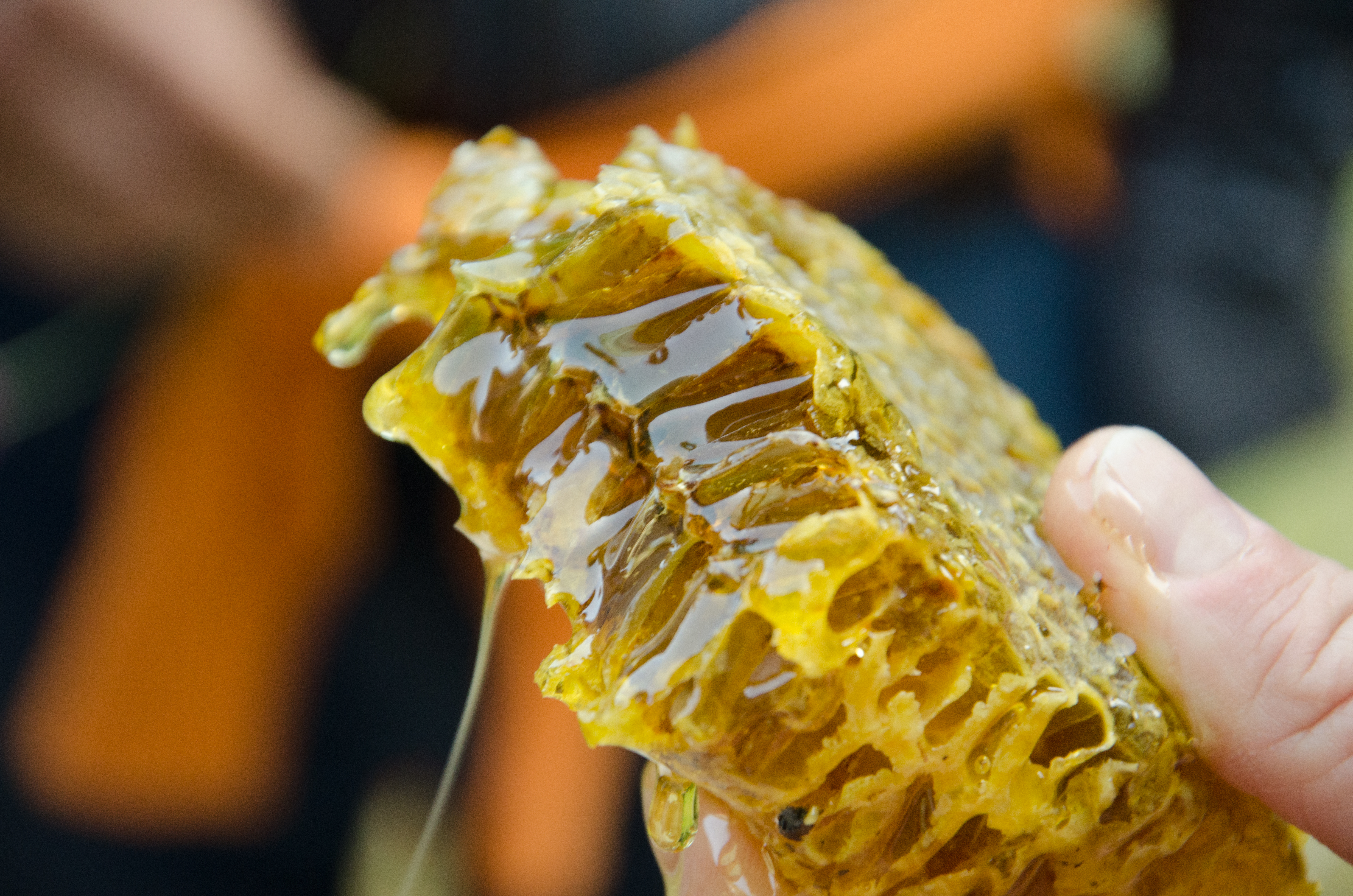 Honey of the Valley of Anapo (Hyblaean Mountains) . Valle dell'Anapo, workshop 25-05-14